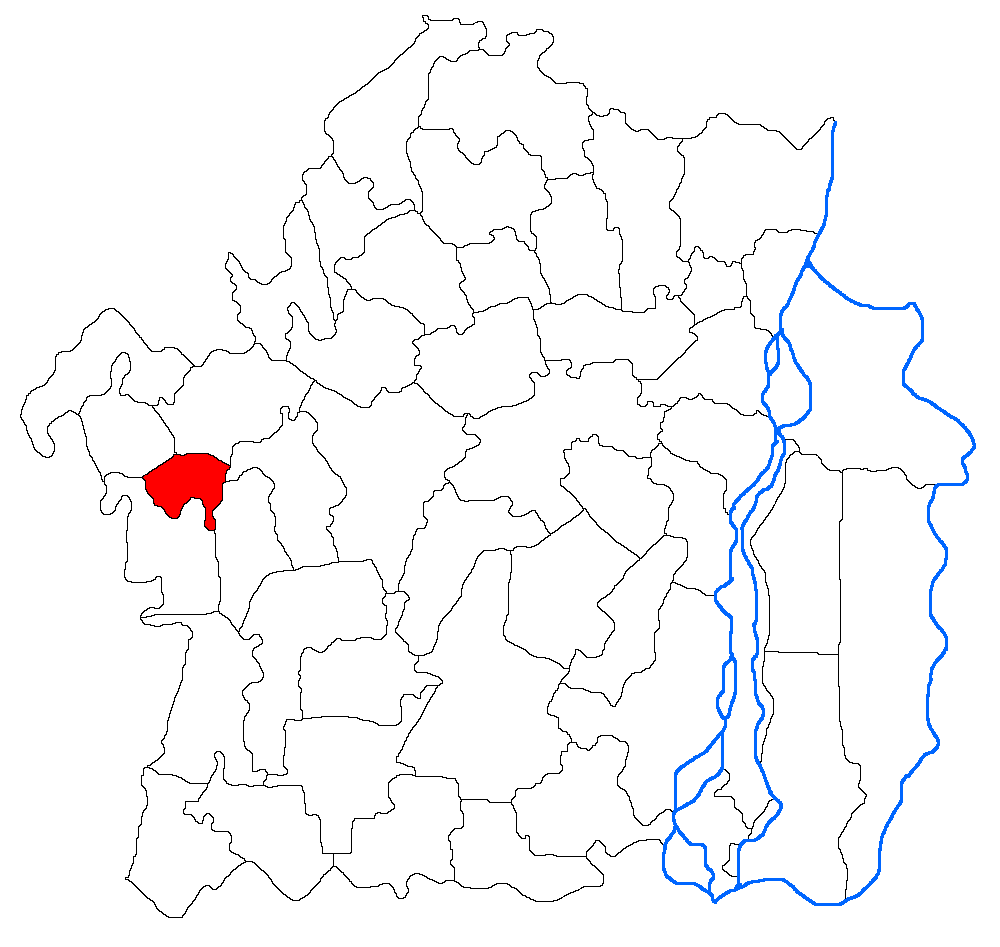 Limits of Town of Faurei in Braila County